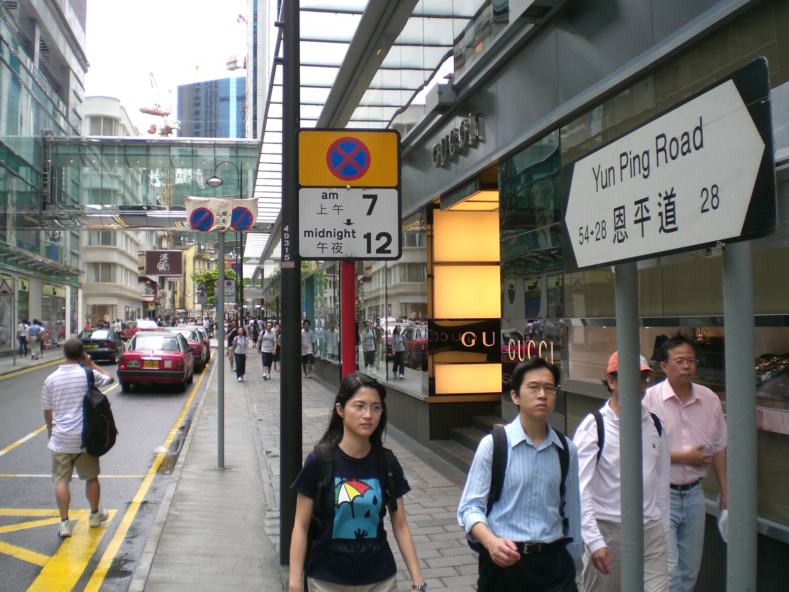 銅鑼灣, Causeway Bay Author= Kwanyatsw